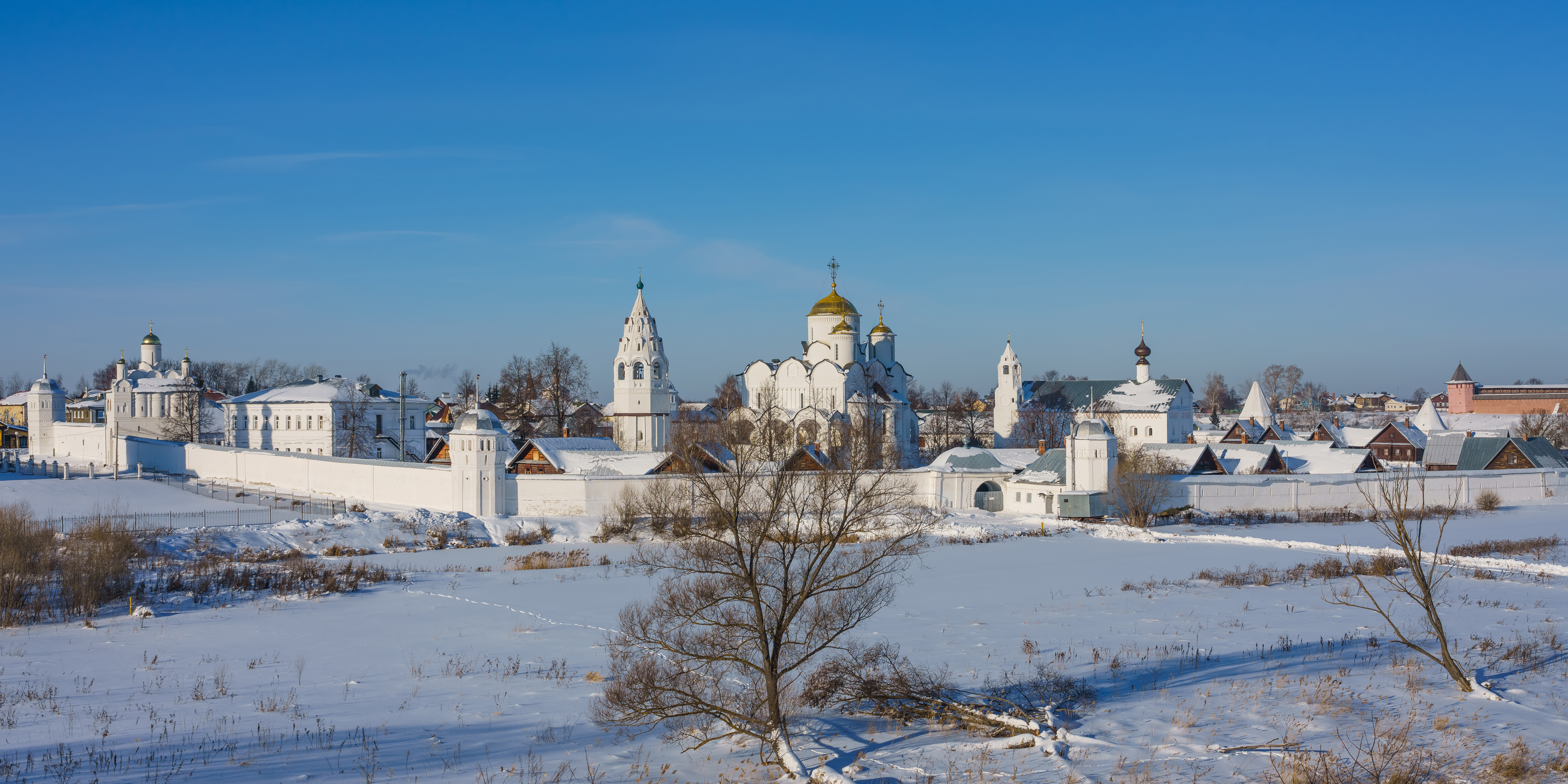 Pokrovsky Monastery in Suzdal, Russia